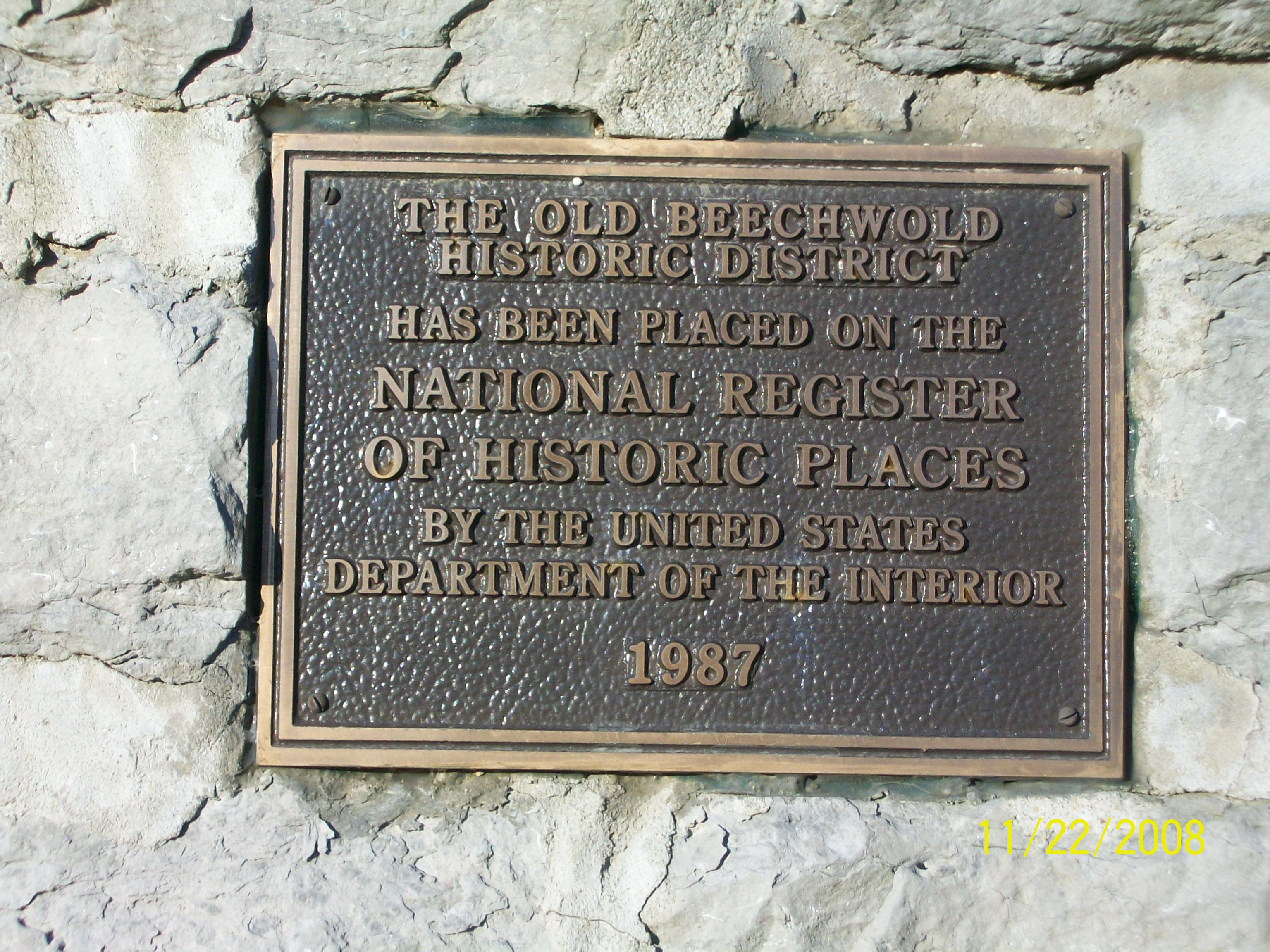 view of the plaque designating Old Beechwold as listed on the national register of historic places